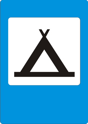 "Camping" 7.10 road sign.